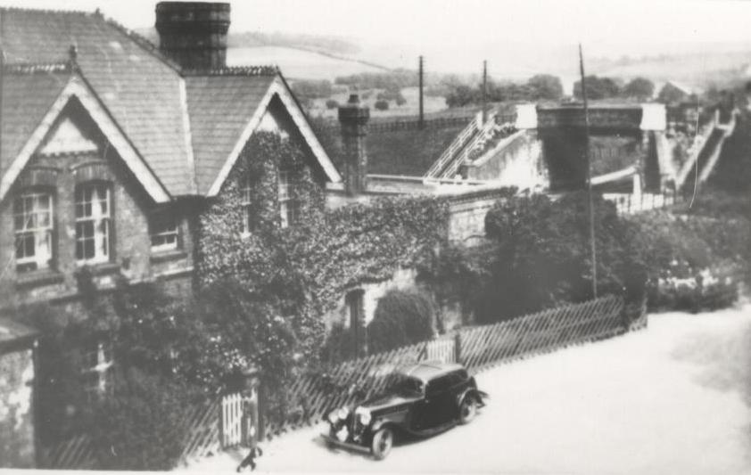 (Why not try searching our East Riding of Yorkshire Map for more historic images? ) (Copyright) We're happy for you to share this digital image within the spirit of Creative Commons. Please cite ' ' when reusing. Certain restrictions on high quality reproductions and commercial use of the original physical version apply. If unsure please